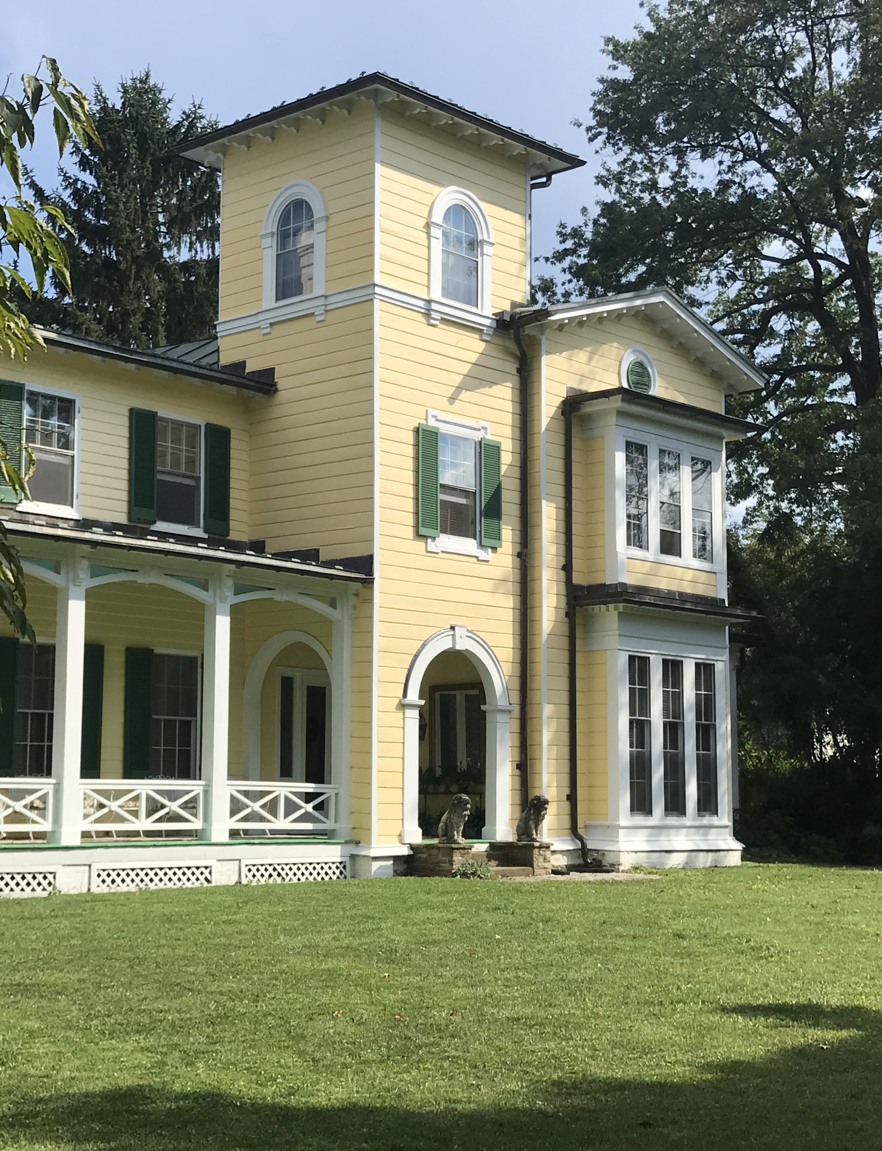 Facade of the Villa Anneslie, an Italianate mansion in the center of the Anneslie neighborhood of Baltimore County, Maryland. Built in 1855 on a 129 acre farm, it is now surrounded by small bungalow-style single family houses.